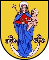 Coat of arms of Wittichenau in Saxony, Germany. Hornjoserbsce: Wopon Kulowa.